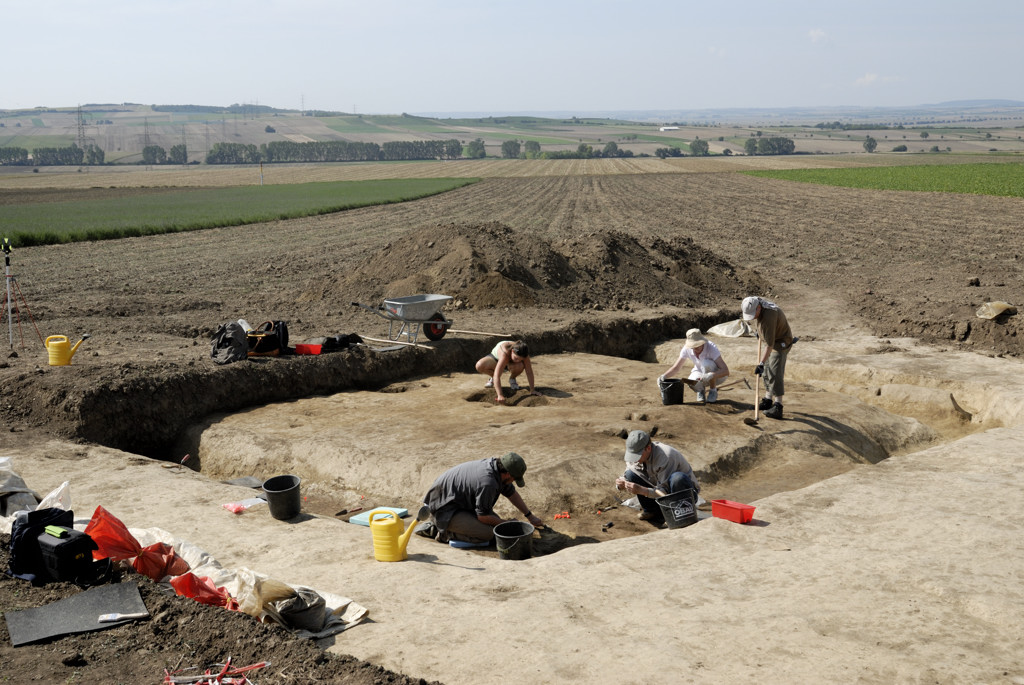 Excavation of a Celtic temple area on the Sandberg (Weinviertel, Austria)